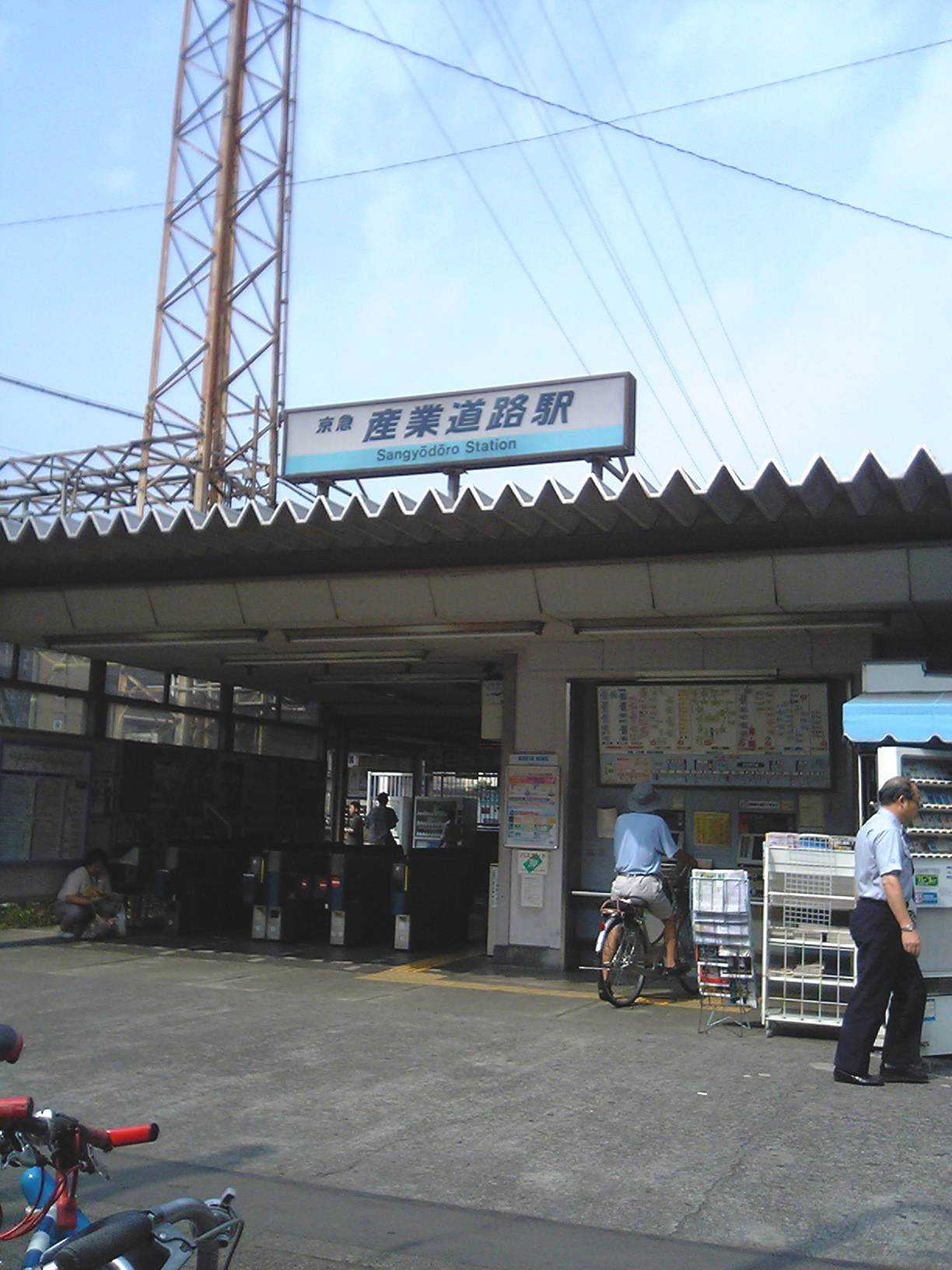 Sangyo doro station